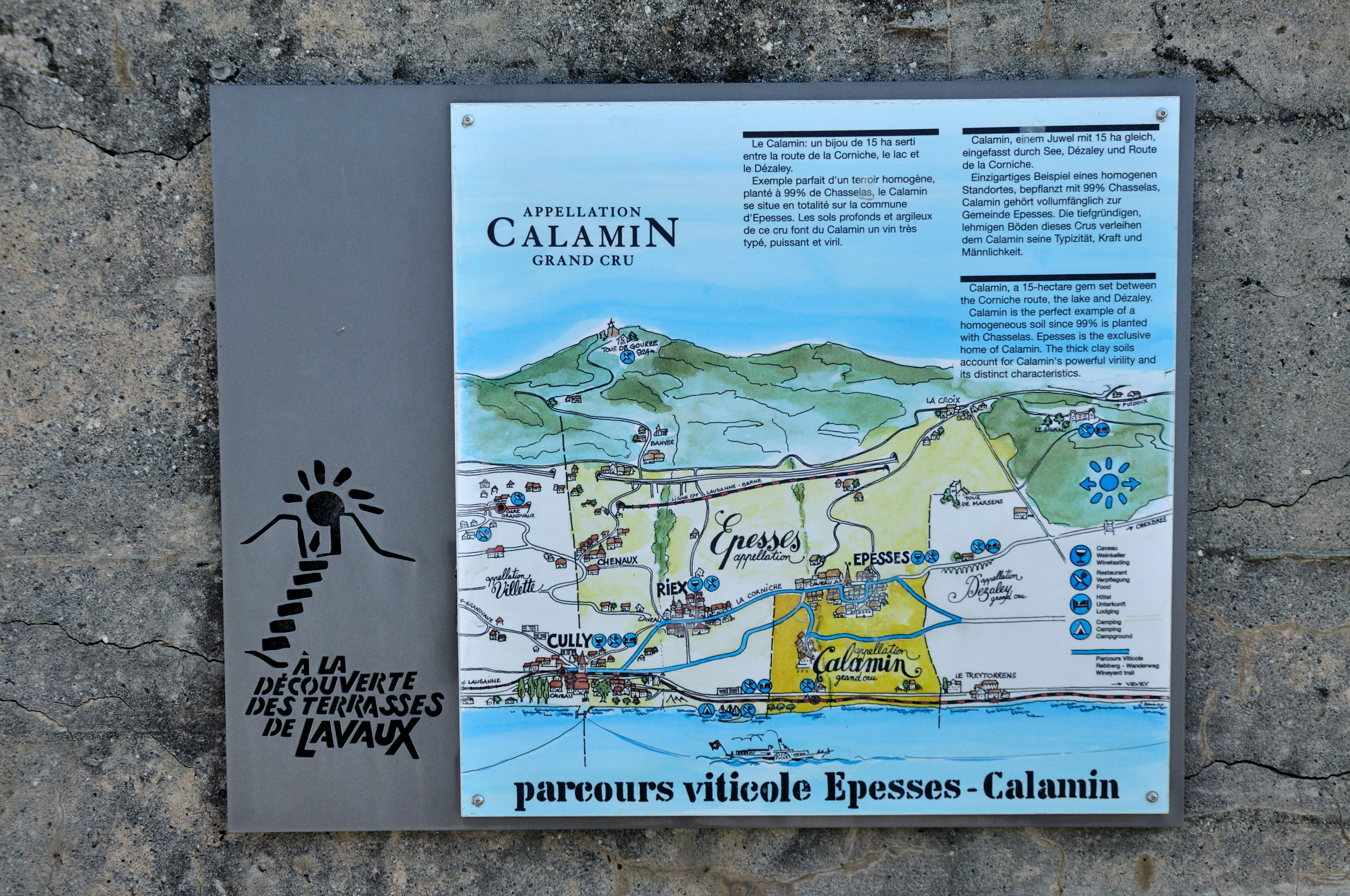 Switzerland, Vaud, hike along Lake Geneva from St. Saphorin to Lutry